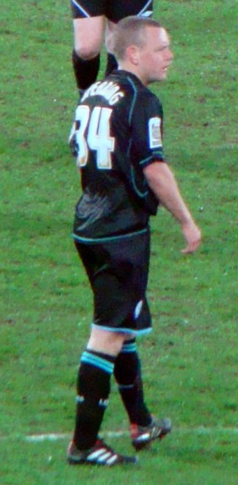 Jay Spearing. Image cropped from original at Flickr.